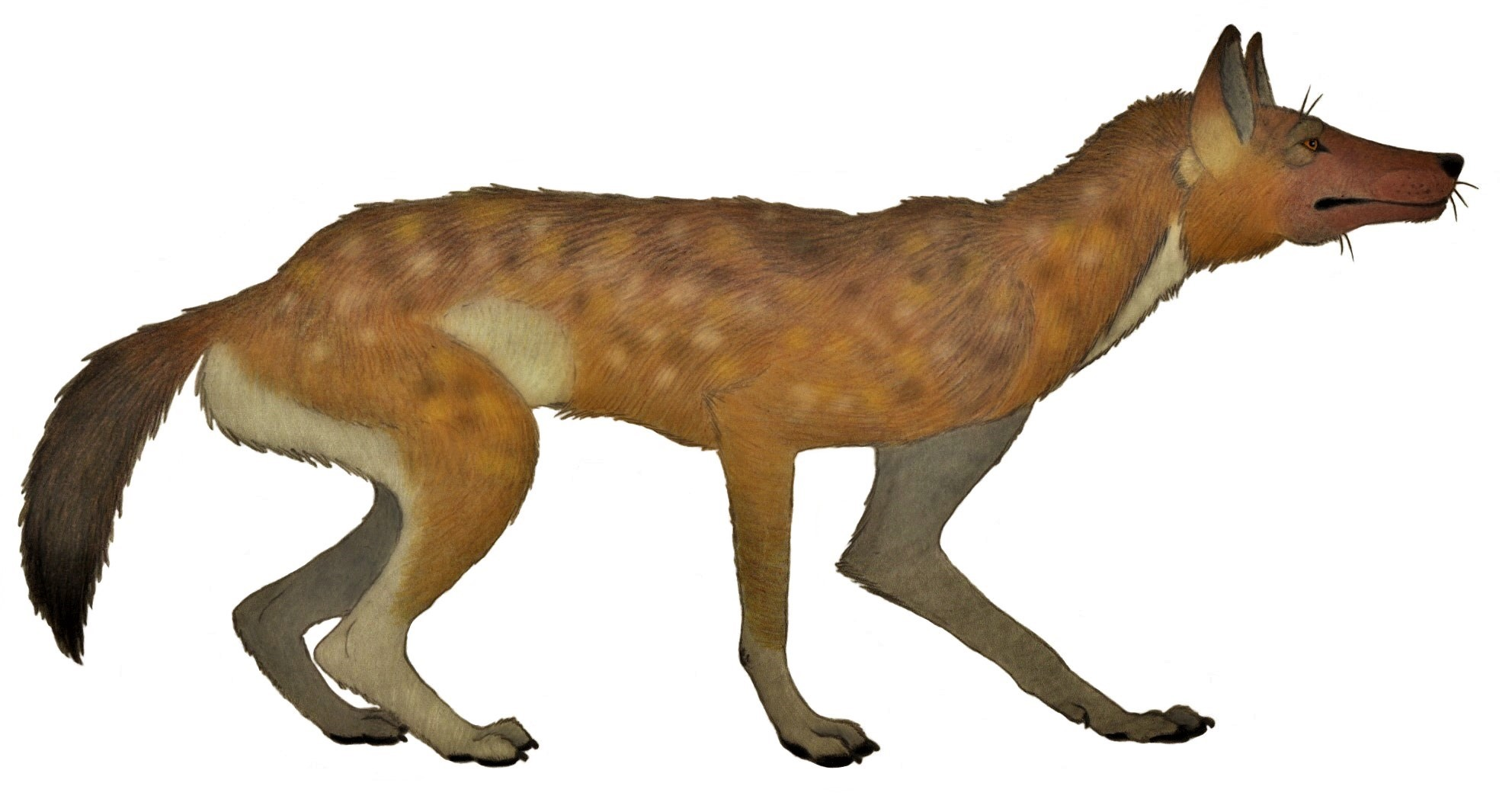 Illustration of C. sardous, with outline based on [1].